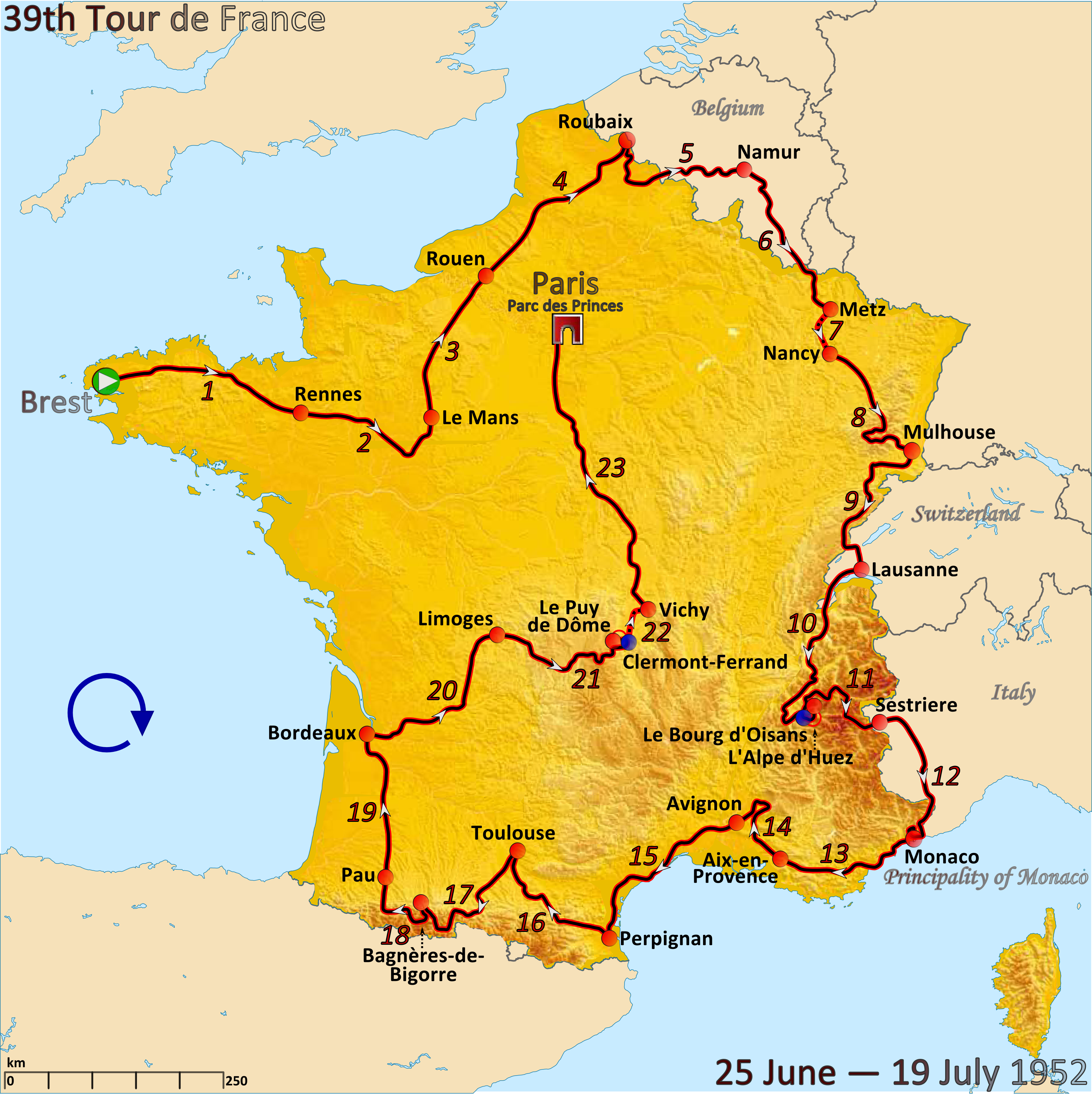 Map of the 1952 Tour de France created in Inkscape using accurate stage maps from touratlas.nl